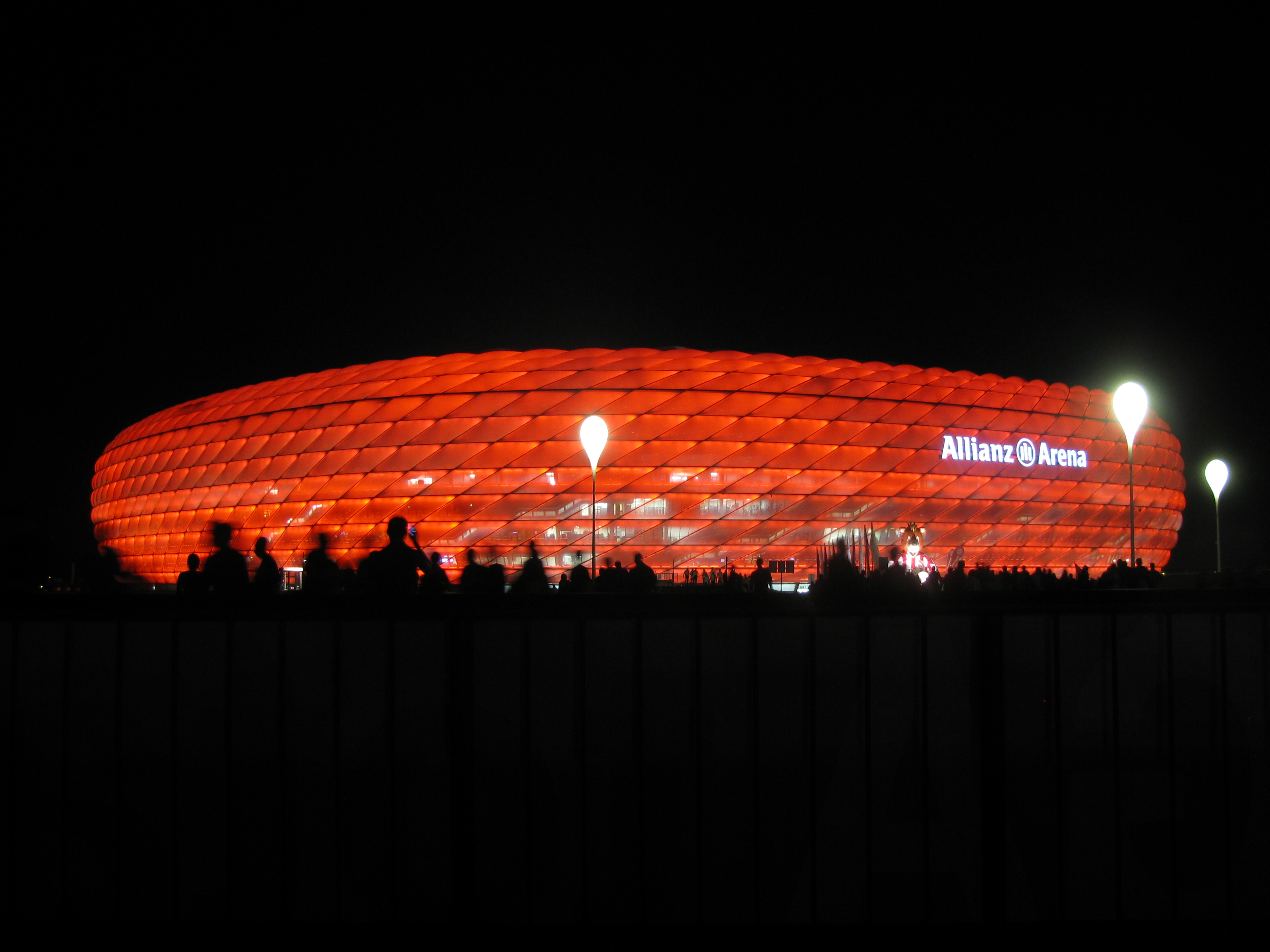 Allianz Arena by night 2.